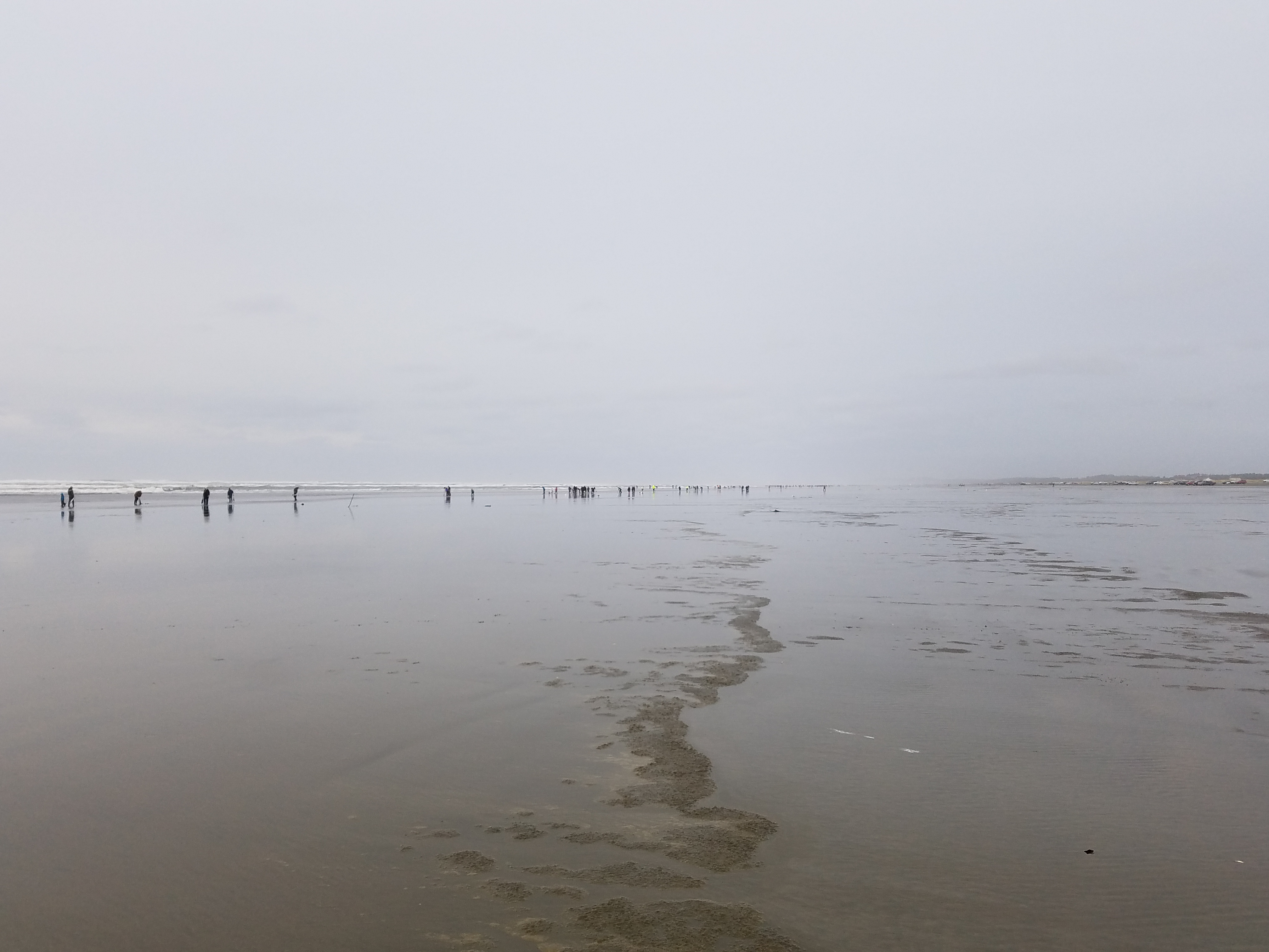 View of the beach at low tide at Ocean City State Park along the Pacific coast of Washington state in the U.S. People can be seen digging for clams.